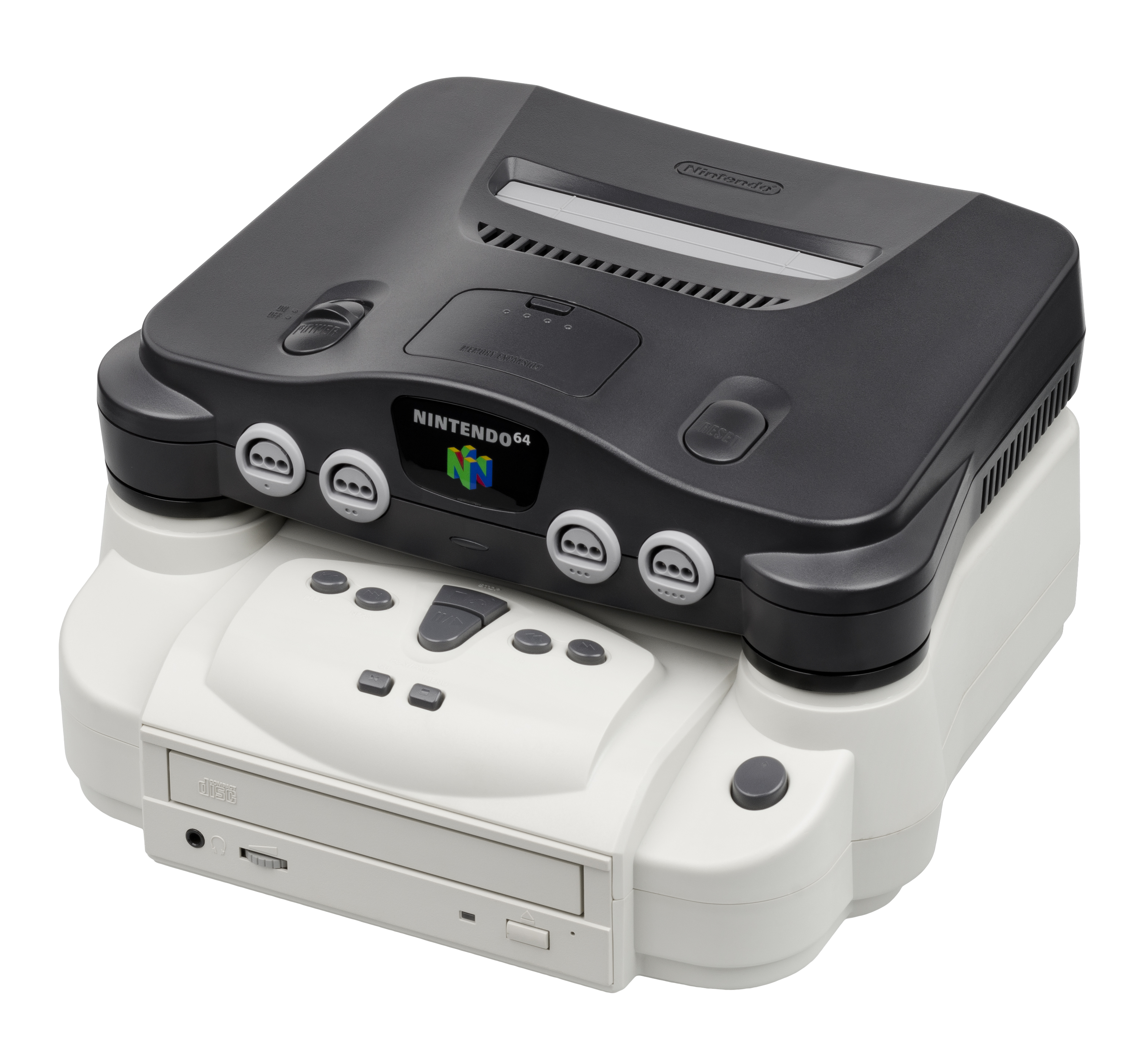 The Doctor V64, a dev kit/game copier for the Nintendo 64 gaming console. Made by the Hong Kong company Bung Enterprises Ltd and released in the 1996, the device attached to the N64 via its bottom expansion port. As originally sold, the device is meant to be a development kit, but can be converted into a backup player and game copier.